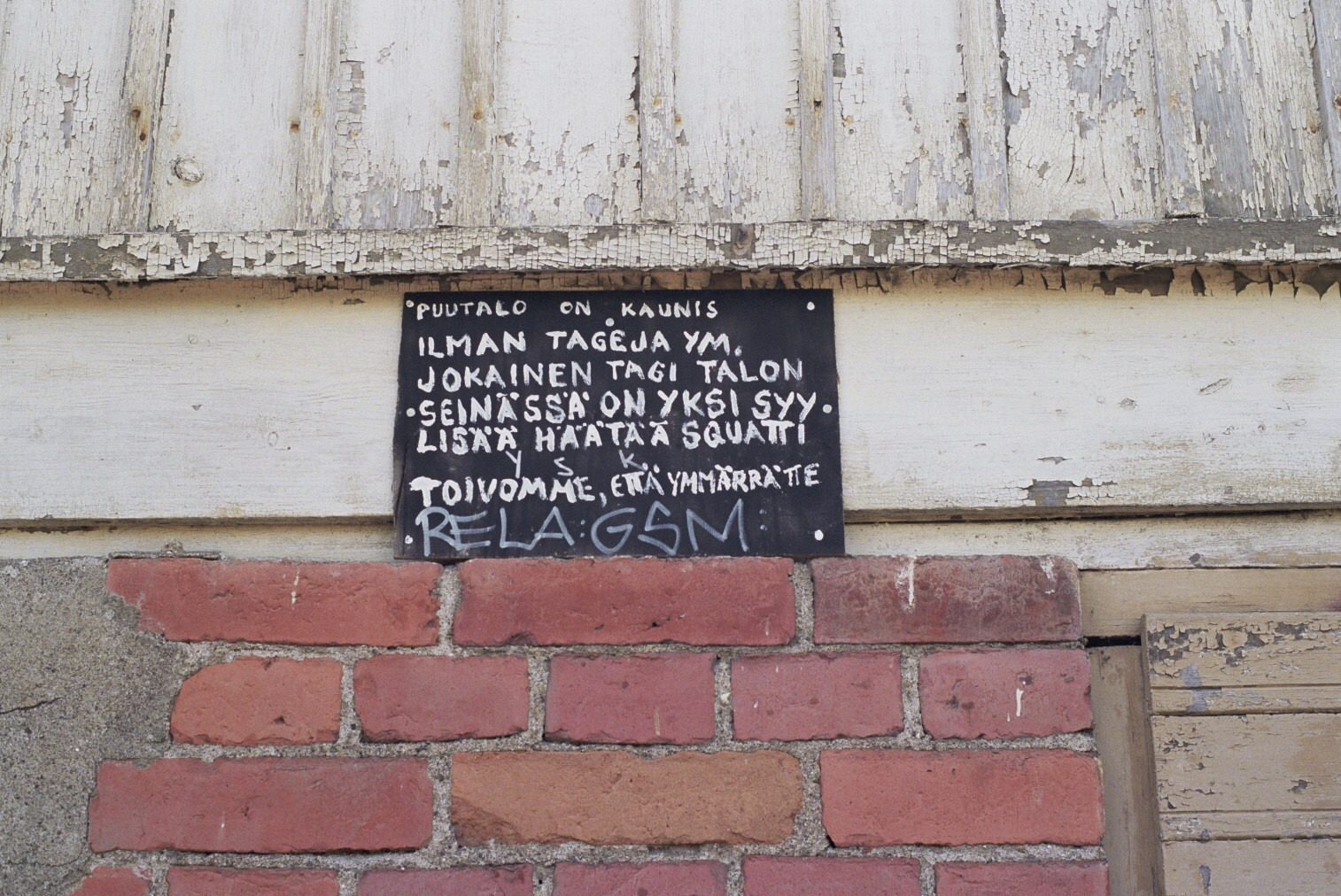 An old wooden house at the address Ratakatu 5 in the Santalahti district of Tampere, Finland. It was squatted in 2007 (Ratakatu Squat, later evicted). The sign roughly reads: "Wooden house is beautiful without tags etc. Every tag on the wall of the house is yet another reason to evict the squat. We hope you understand."